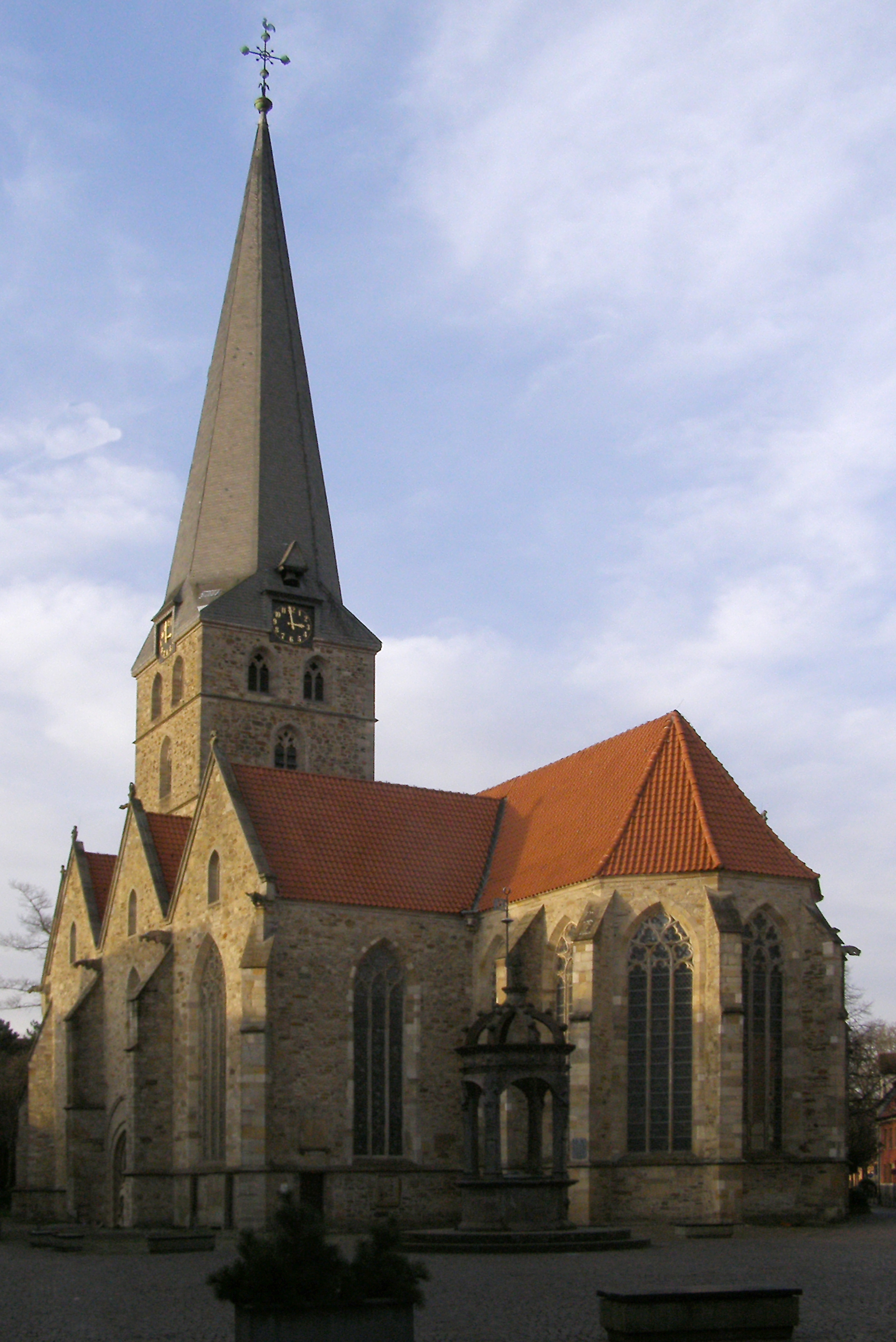 St. Johannis in town of Herford, District of Herford, North Rhine-Westphalia, Germany.